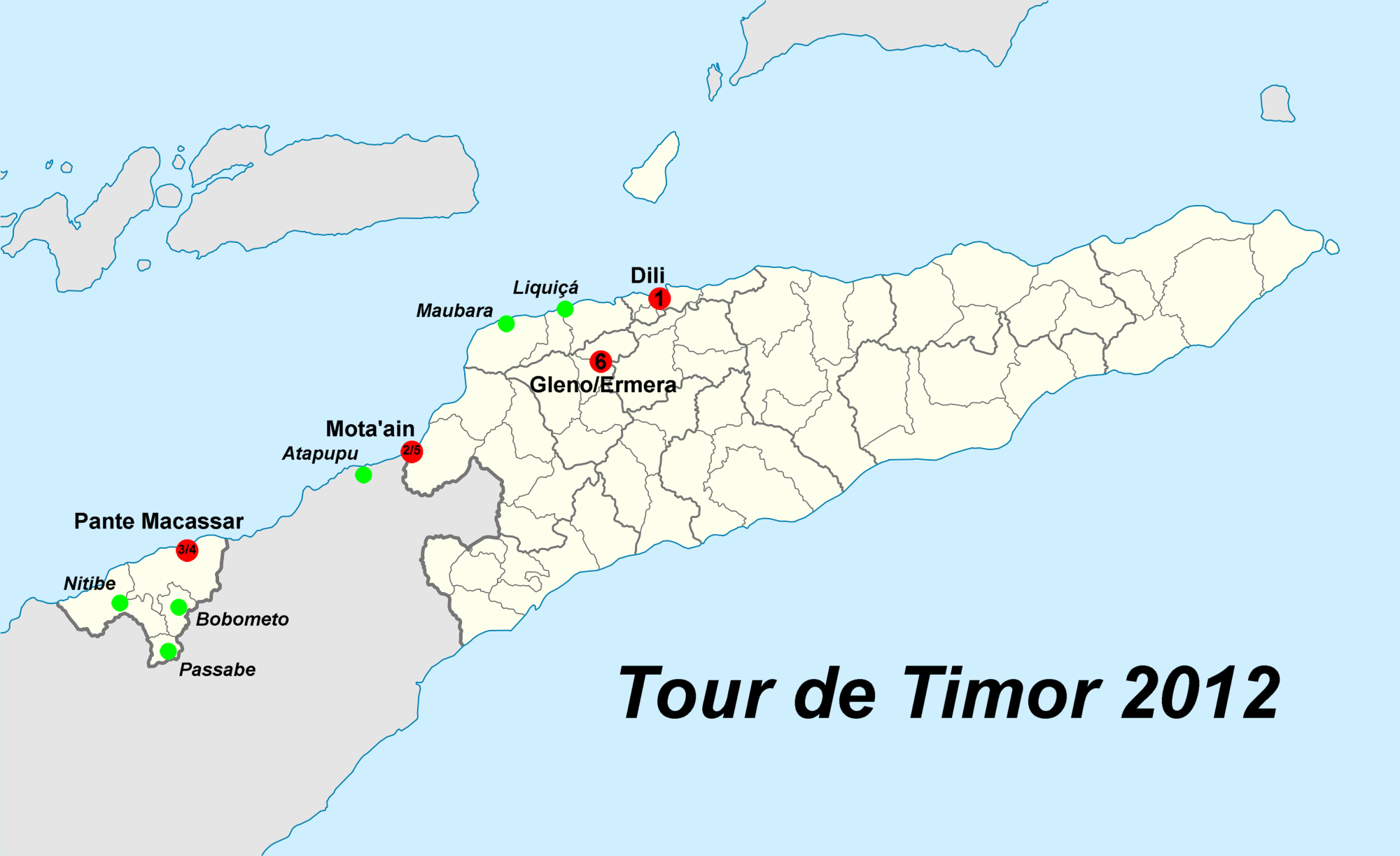 Stops of the Tour de Timor 2012